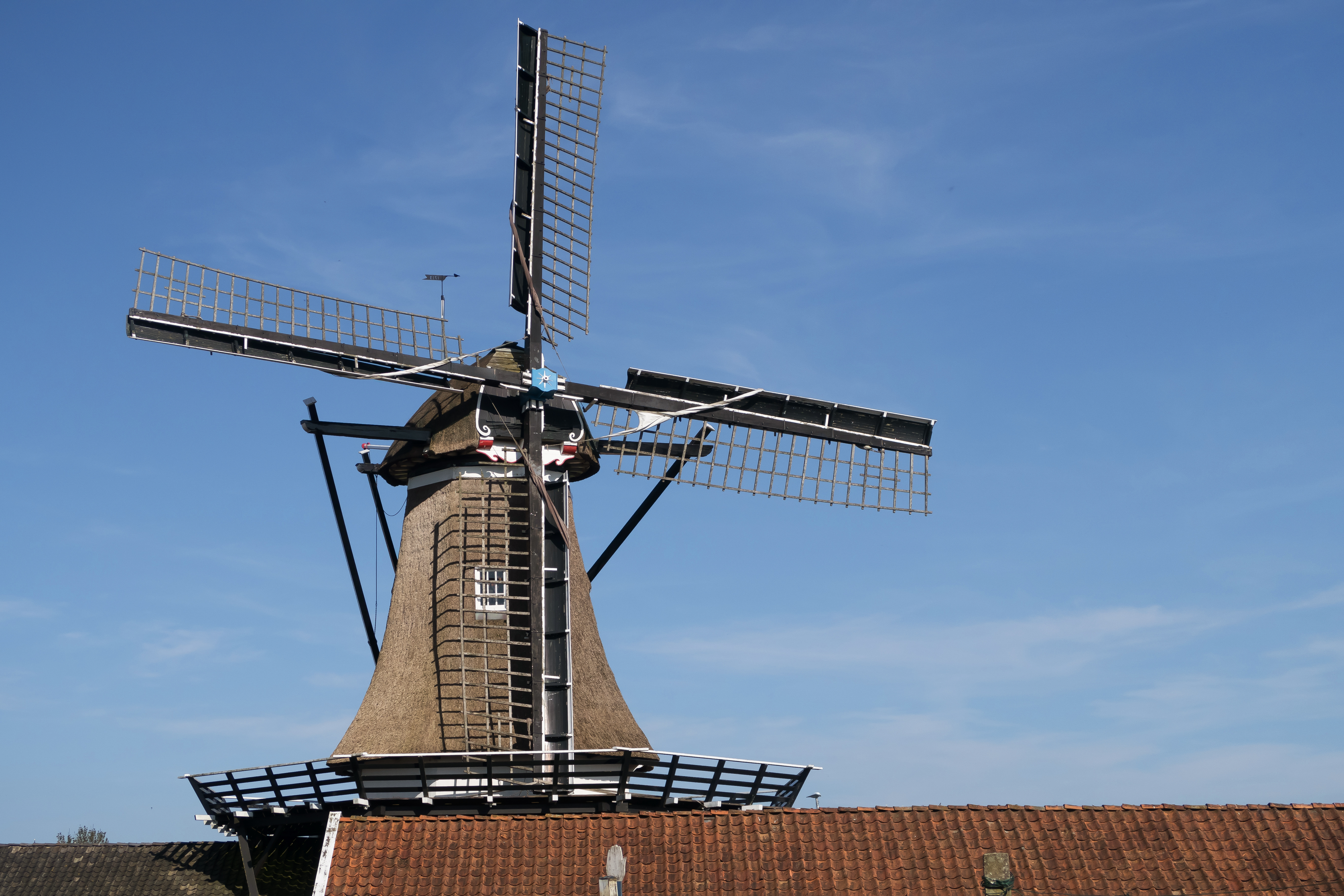 Woudsend, windmill: houtzaagmolen de Jager